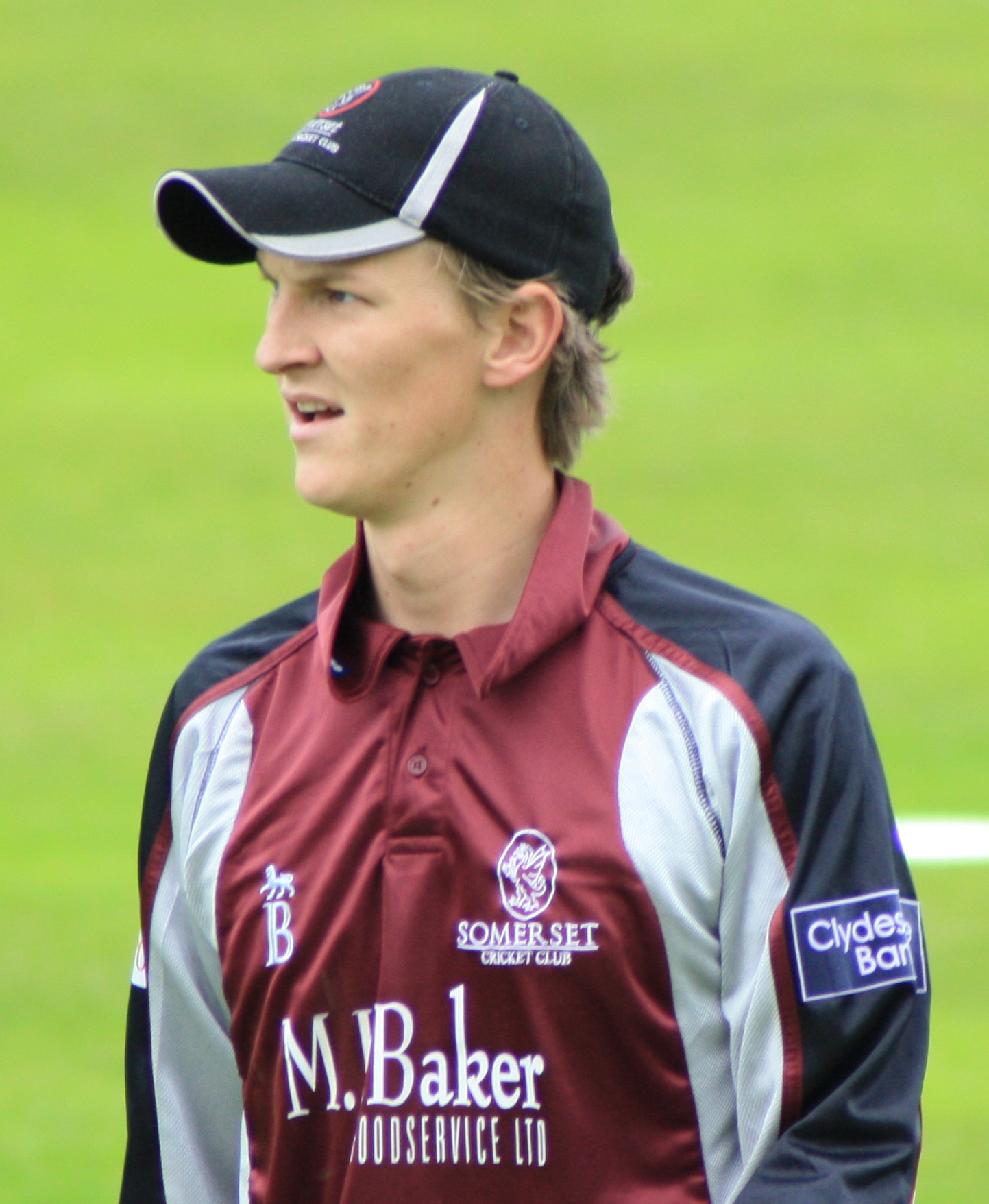 Max Waller in the field for Somerset against the Unicorns at the County Ground, Taunton during a Clydesdale Bank 40 fixture.